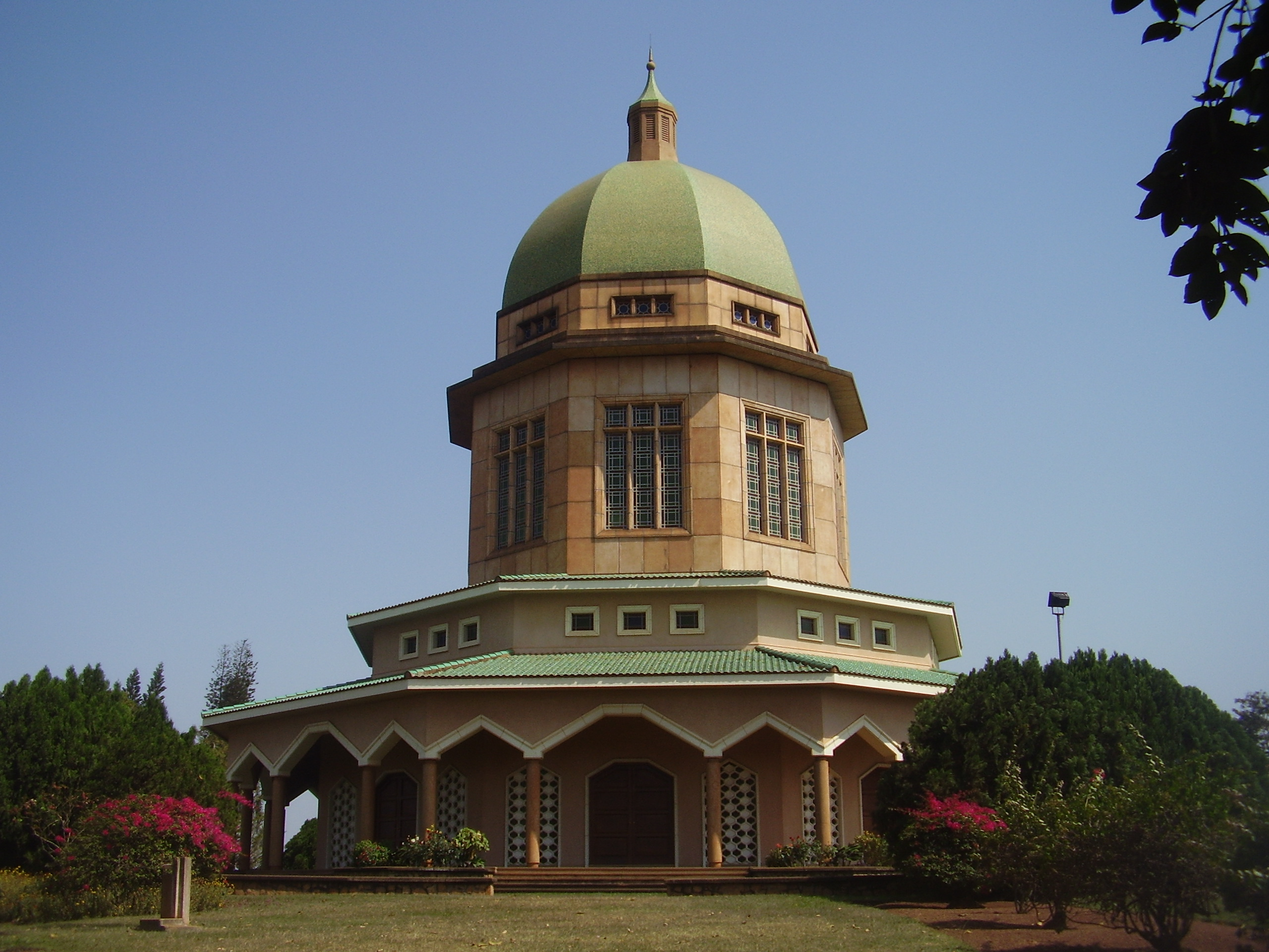 This is an image of the Bahá'í House of Worship in Kampala, Uganda, also known as the Mother Temple of Africa.